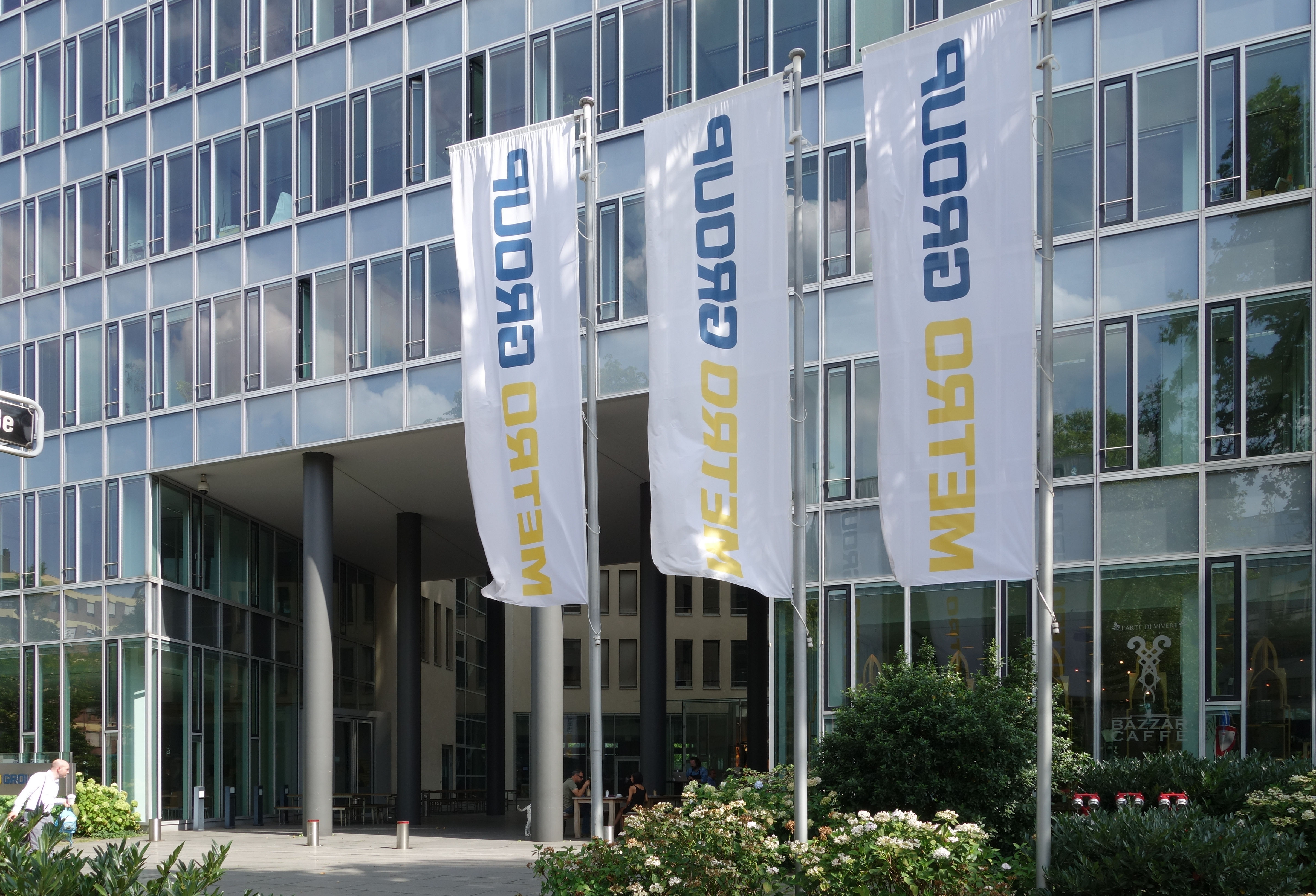 Head office of Metro Group in Düsseldorf on 14 August 2015. Grafenberger Allee entrance.